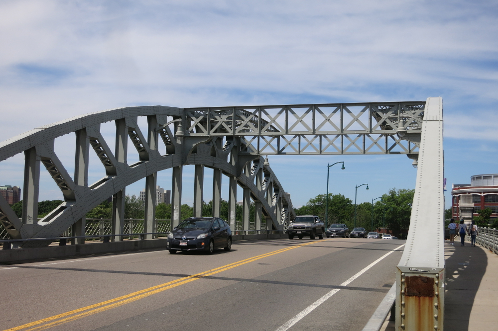 View of Bridge from Cambridge looking towards Boston.